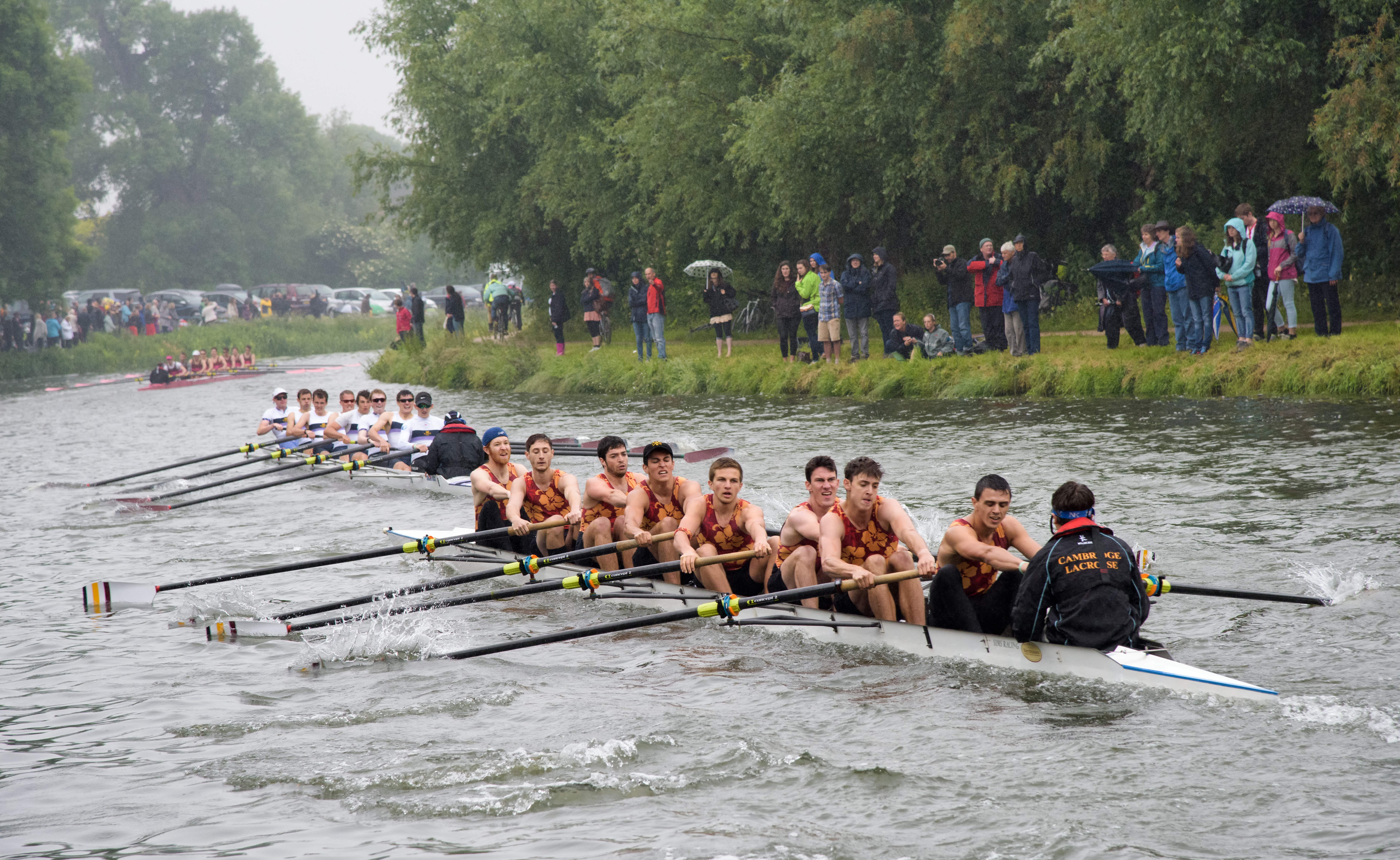 Selwyn's team racing the May bump finals.